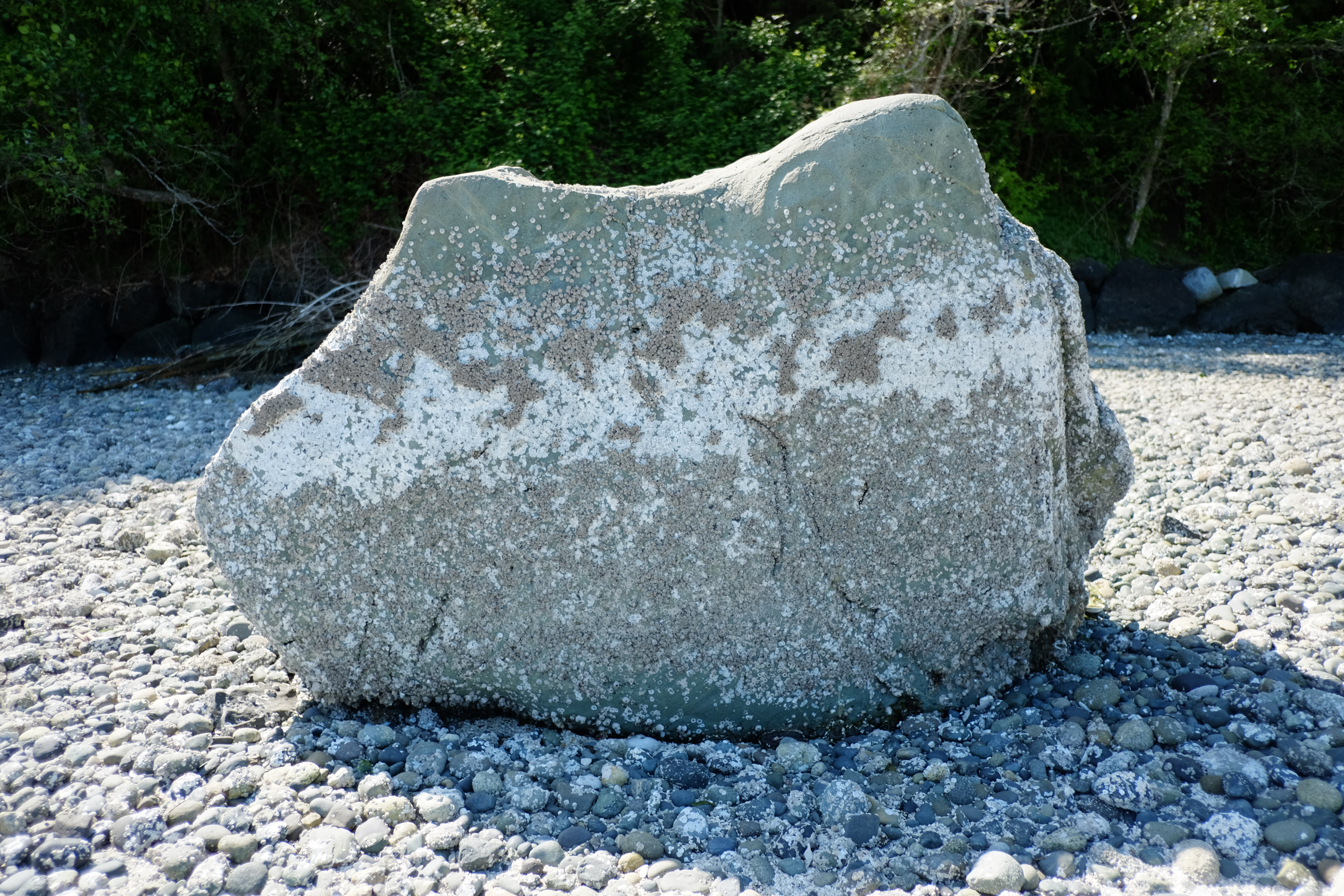 Haleets petroglyph rock on at Agate Point on Bainbridge Island, Washington.